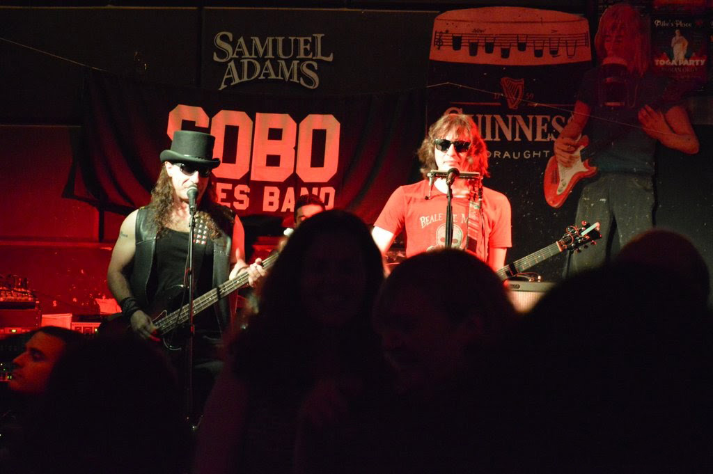 SOBO performing at Mike's Place Herzliya